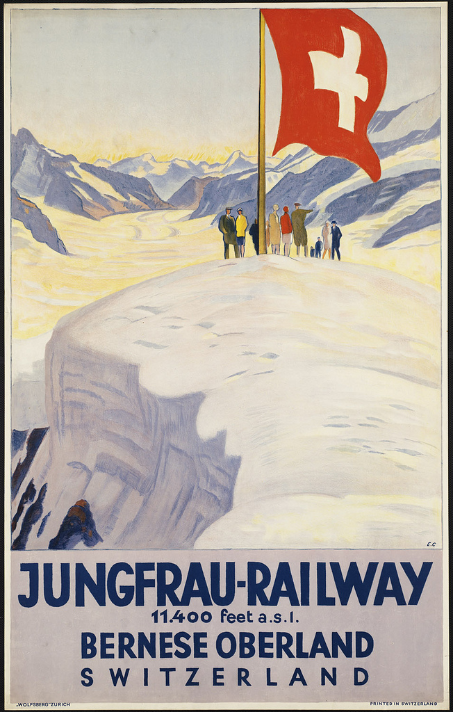 File name: 08_05_000241Title: Jungfrau-Railway. Bernese oberlandDate issued: 1910-1959 (approximate)Genre: Travel posters; LithographsSubject: Tourism; SightseersNotes: Zürich : Wolfsberg; Title from item.; Printed in SwitzerlandCollection: Boston Public Library, Vintage Travel PostersLocation: Boston Public Library, Special CollectionsRights: Rights status not evaluated